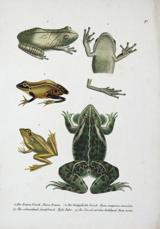 "Naturgeschichte und Abbildungen Der Reptilien", Rana brama; R. sanguineo maculata; R. aurea; Hyla faber